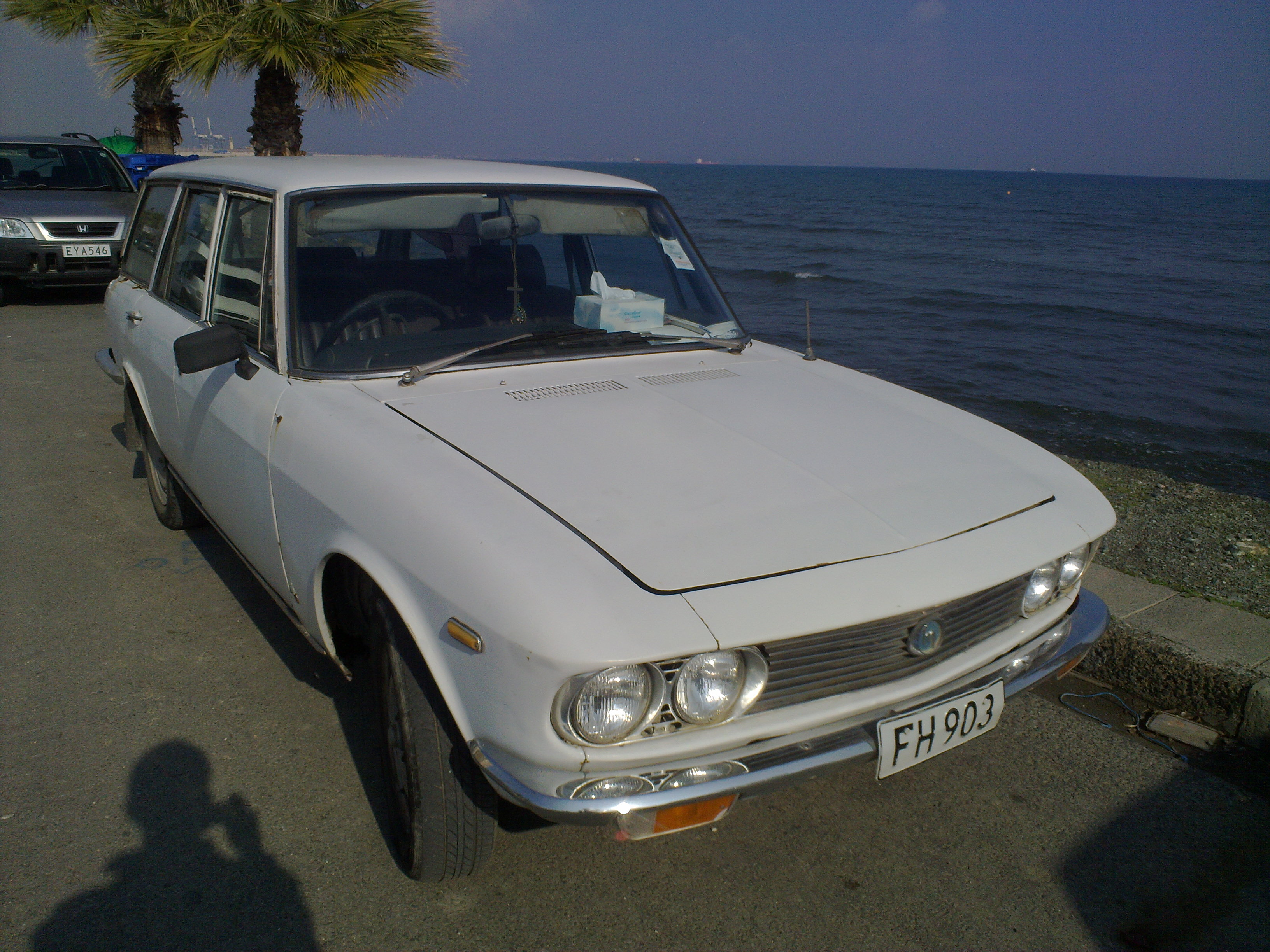 A 1970 estate version of the Mazda Luce. In Cyprus the sedan model of the Luce was used in the police department in the 1970s